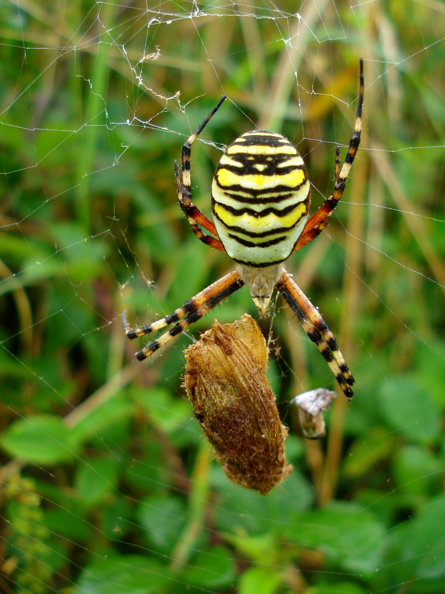 The common name of this beautiful spider is Wasp Spider. This spider is, like all orb-weavers, not poisonous for us. The adult female has a shining silvery cephalothorax (head) and a yellowish abdomen with black and white bars across it. The adult female is much larger than the male. The male measures between 4 and 6 mm while the female has a full grown size between 14 - 17 mm. When the female is loaded with eggs she can become enormous in size. Argiopes can be easily identified by the zigzag of white silk in their webs. Like all orb-weavers, they have ringed legs. The function of the zigzag of white silk in their web is not clear. There are several ideas what the purpose may be. It may be used to attract insects because it is radiating UV-light and that attract insects. Another explanation is that it is to frighten predators. The spider shakes the web vigorously when something large is approaching and that result in a blurry white spot. Another explanation can be that the spider makes the web clear to see and that should avoid large animals to destroy the web. Read more about them + pix at